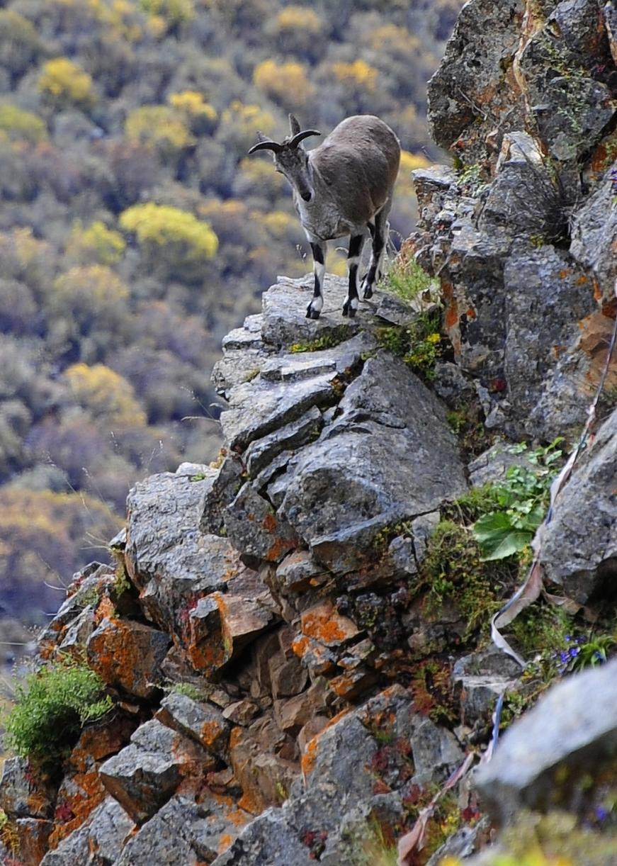 Bharal, Himalayan blue sheep In Tibet